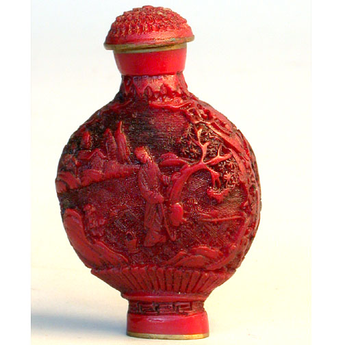 Laurens Summary Laurens